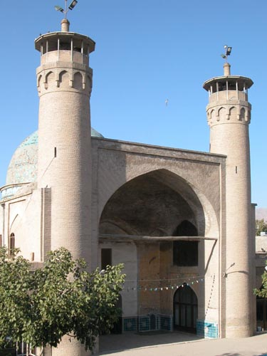 Jame Mosque of Borujerd